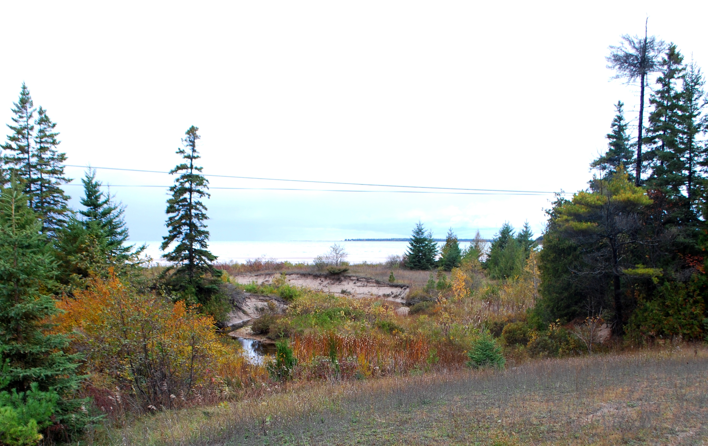 Gros Cap Archaeological District - on Moran Bay near mouth of stream